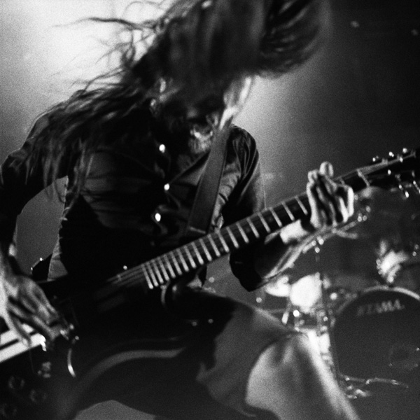 Niclas Engelin playing with In Flames in Johannesburg, March 2012.